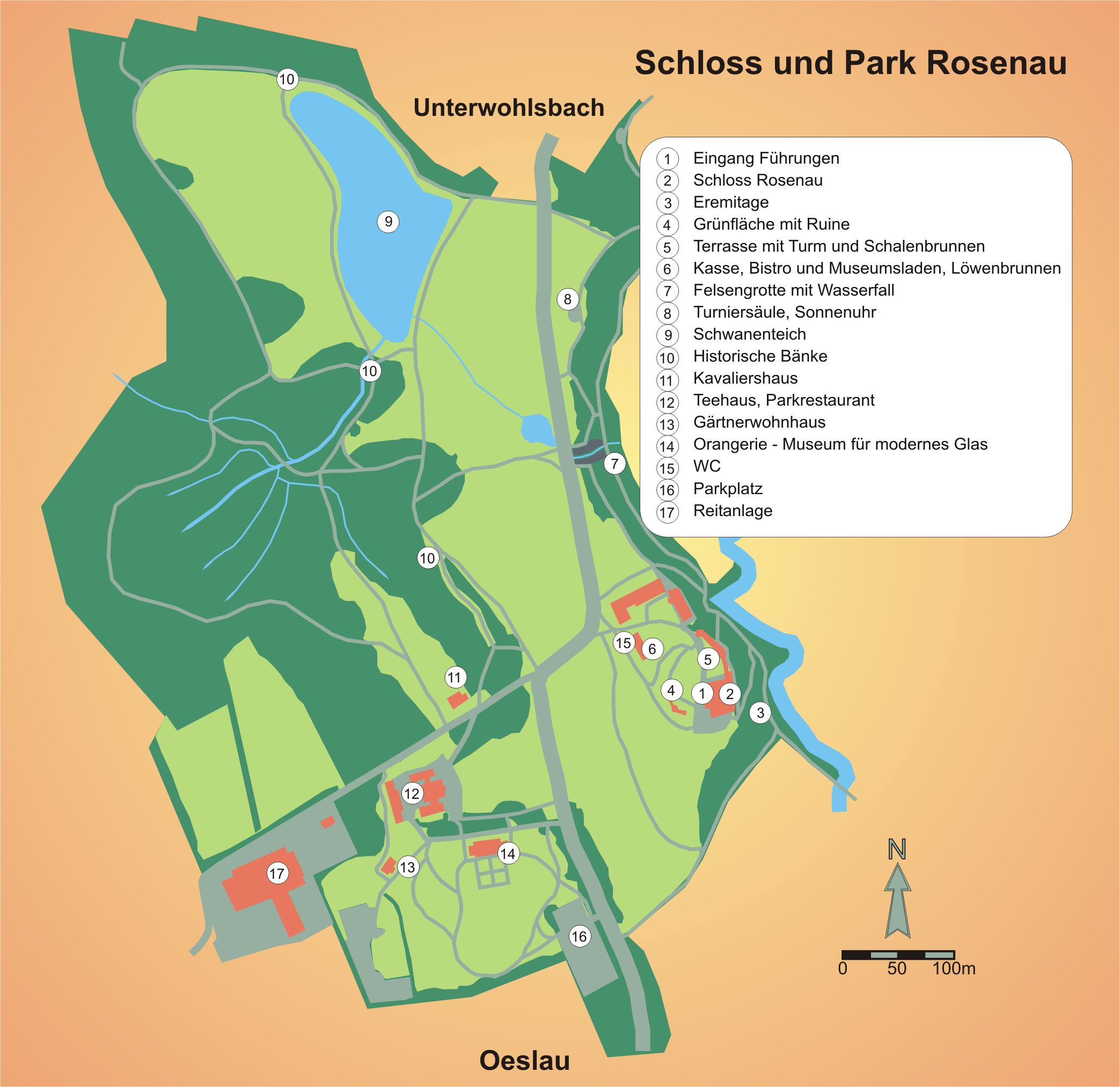 Map of Schloss Rosenau (castle and landscape park) — an aristocratic estate in Bavaria, Germany.